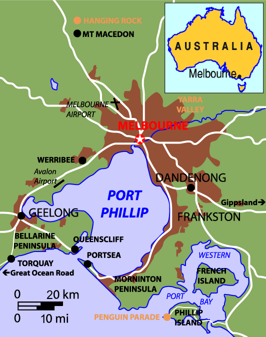 Map of Melbourne, Australia.